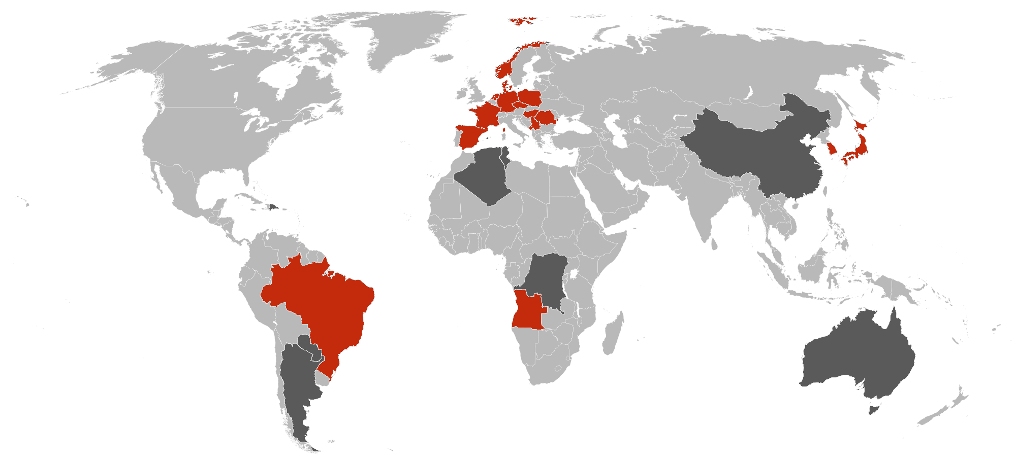 Based on File:2013 world championship women-s handball map.png